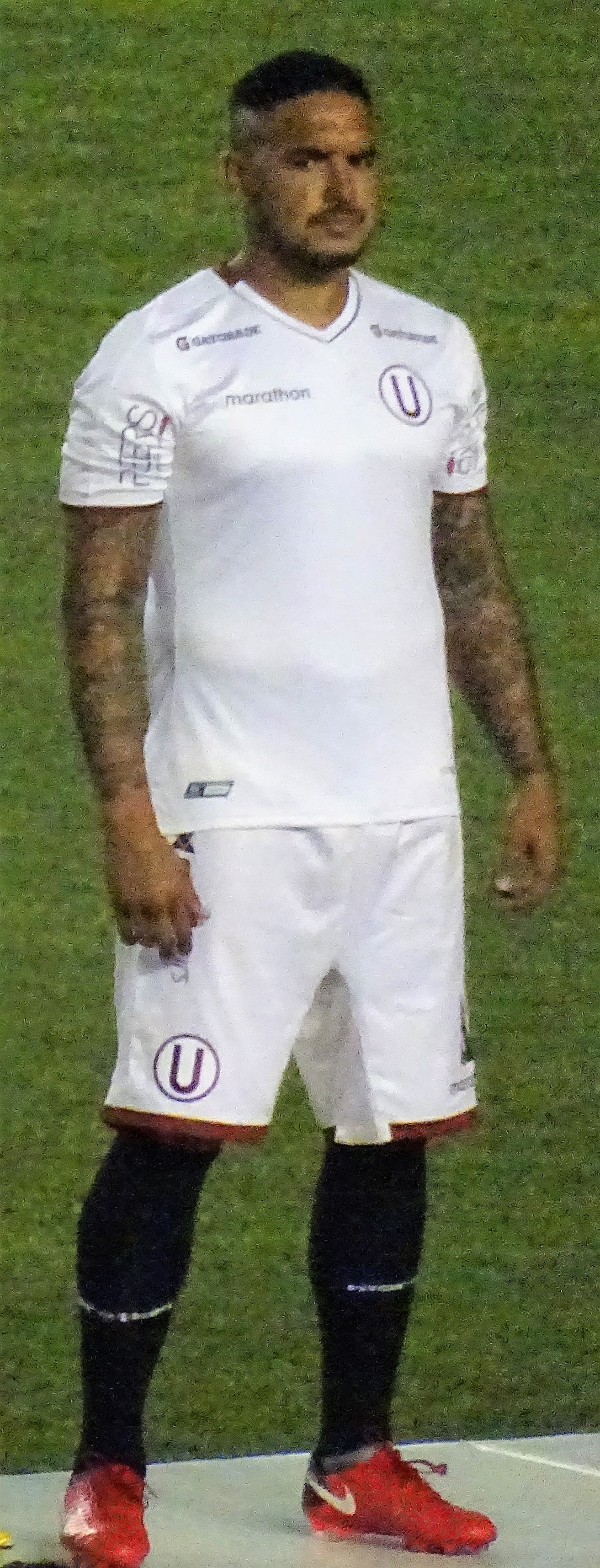 Juan Manuel Vargas (Lima, 1983) Peruvian footballer. Noche Crema 2018